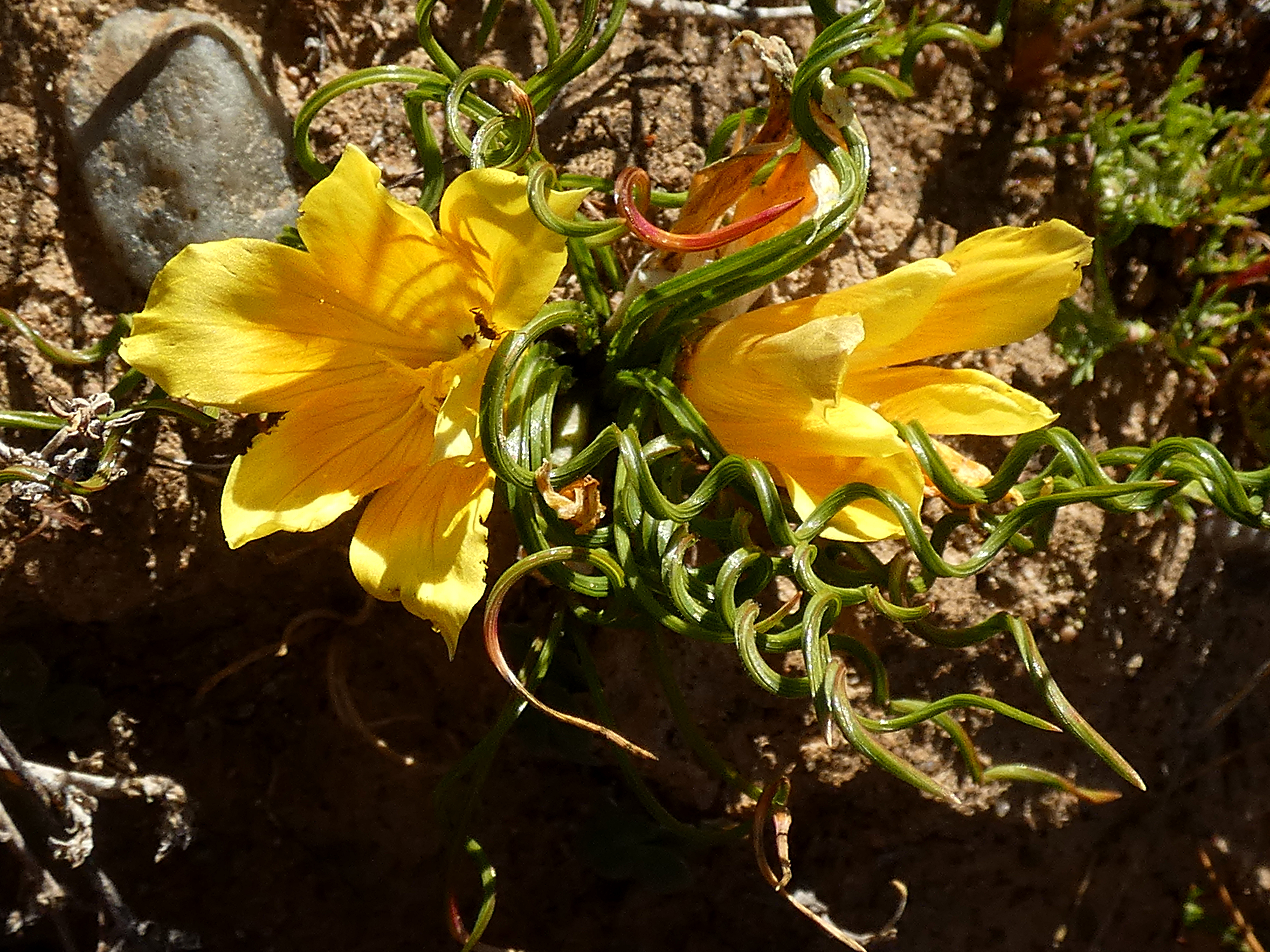 Romulea tortuosa subsp. aurea, photographed at Avontuur Estate, north-west of Nieuwoudtville, Noord-Kaap, Zuid-Afrika Details